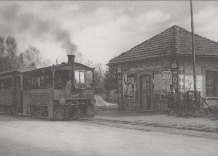 Sangano, tramway station